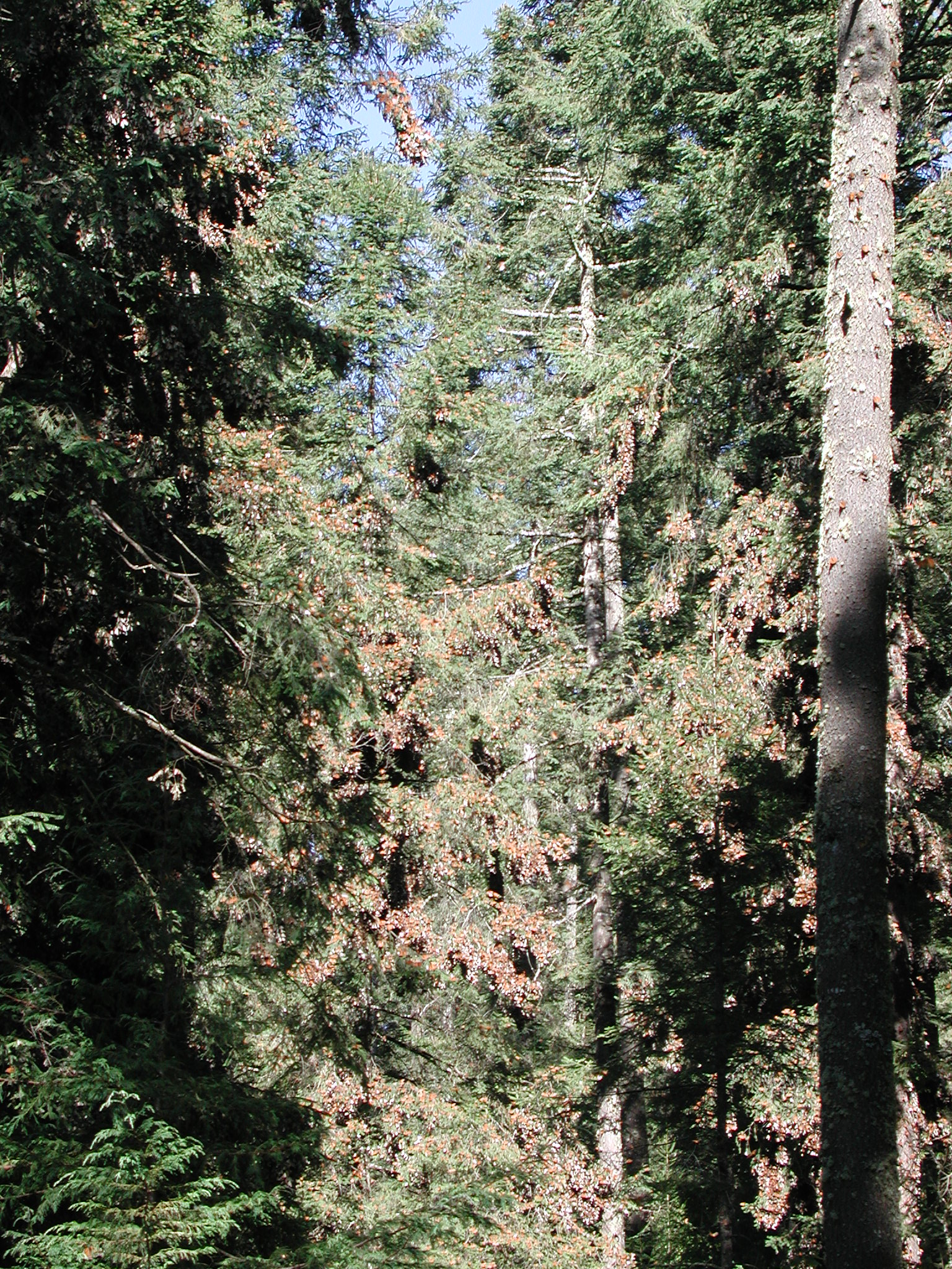 Copyright Jeff Kramer, Austin,Texas Published under